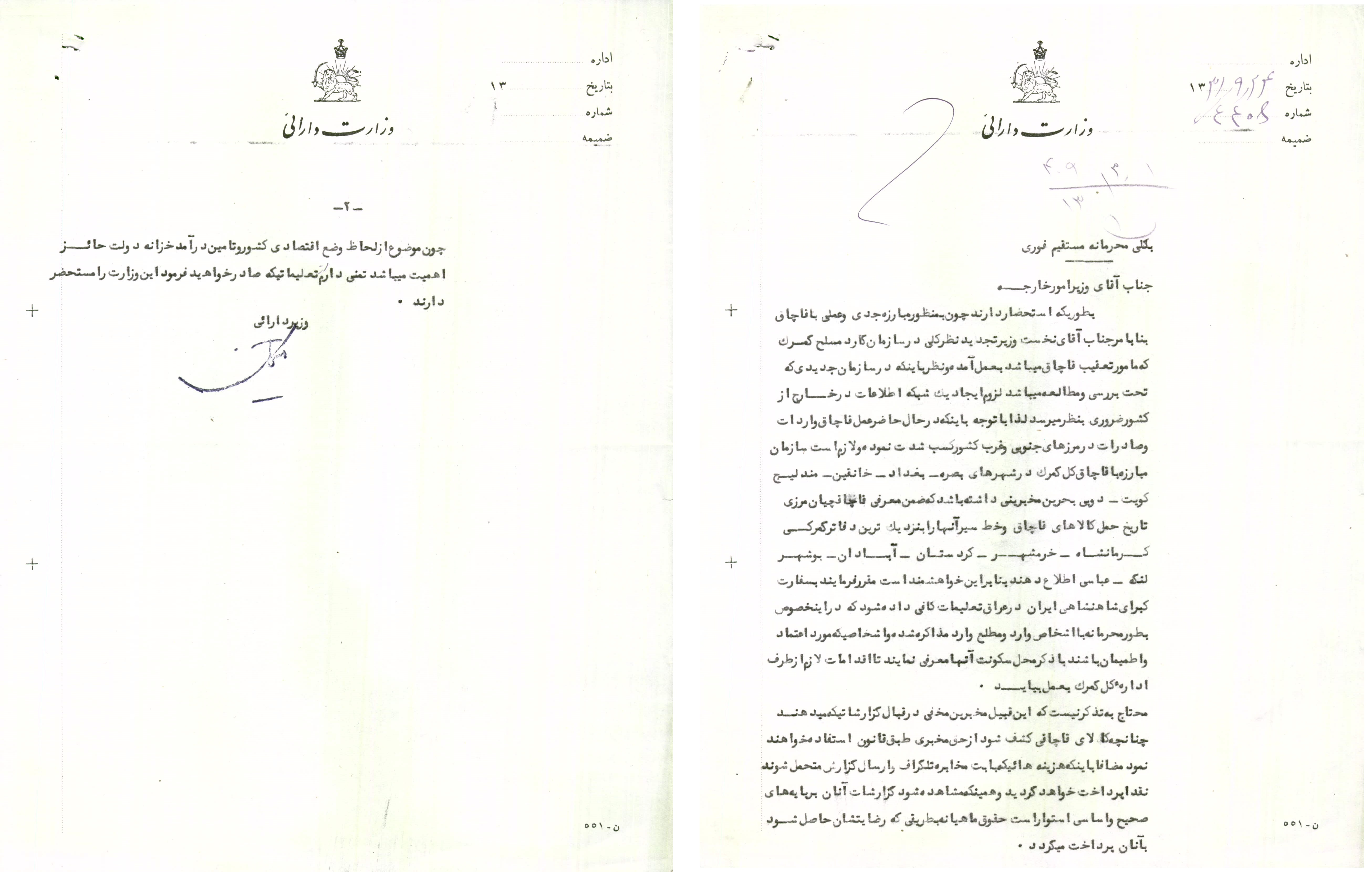 Two page totally confidential, direct and immediate letter from the Minister of Finance to the Minister of Foreign Affairs (Hossein Fatemi) about creating a foreign information network for controlling smuggling In this letter, the Iranian Finance Minister emphasized the necessity of creating an information network outside the country in view of the increase in smuggling. In this regard, the Foreign Minister has been requested to be taught in the Iranian embassy in Iraq for using knowledgeable and trusted informants to control smuggling. The monthly payment and expenses for each commodity discovered is a measure of the Ministry of Finance to encourage these informants to continue to cooperate.